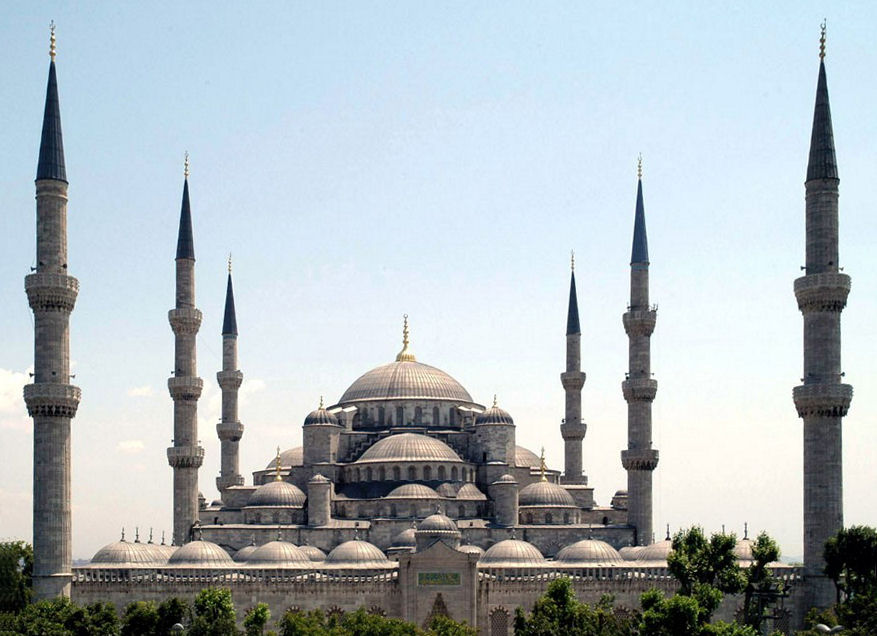 The Sultan Ahmed Mosque in Istanbul, Turkey.